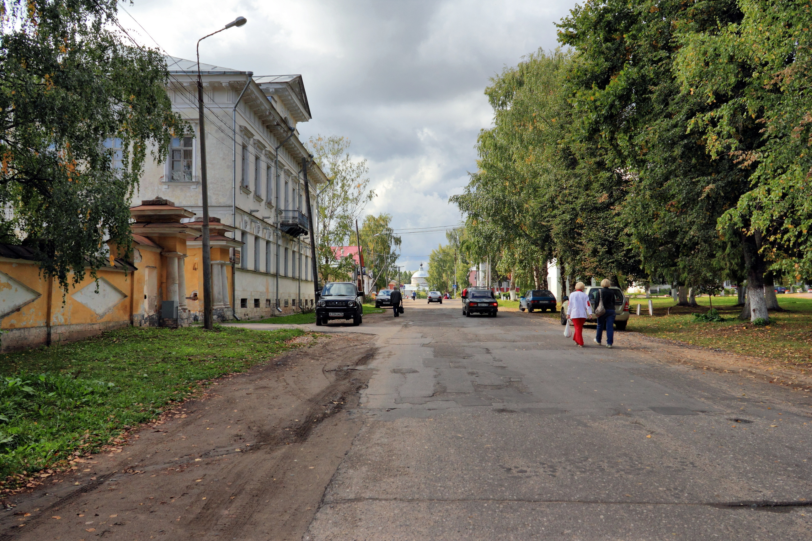 Myshkin